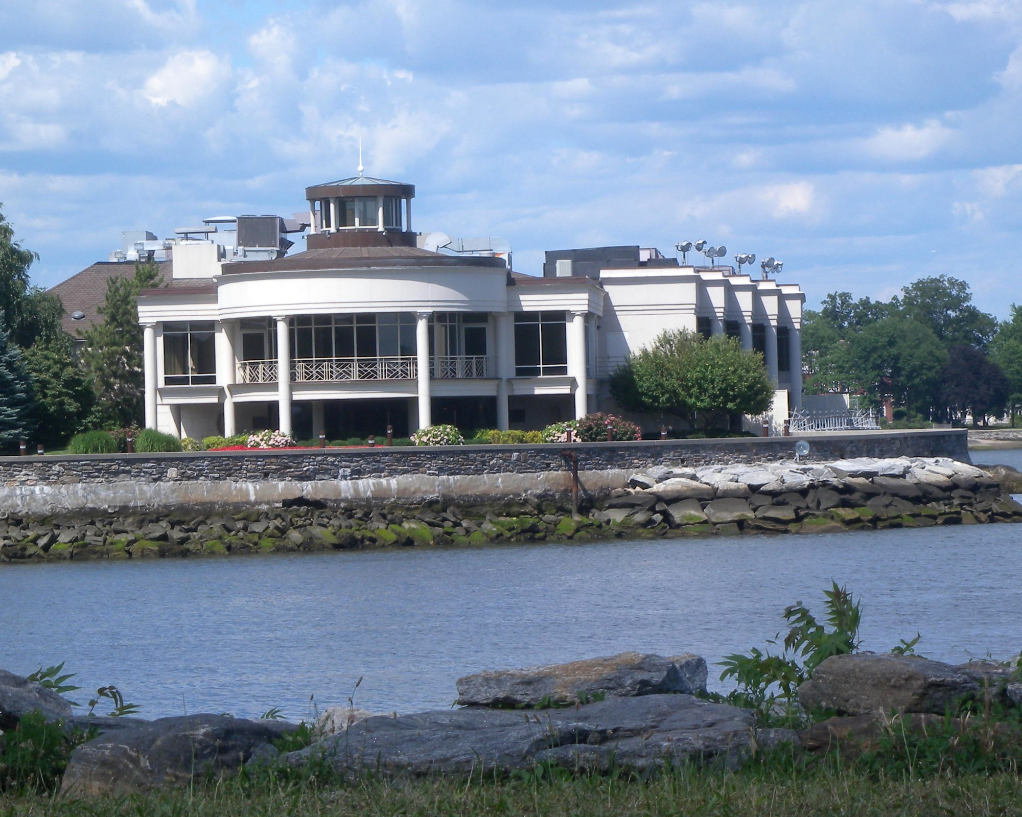 Looking north at Glen Island Casino, now a banquet hall, on a sunny midday.